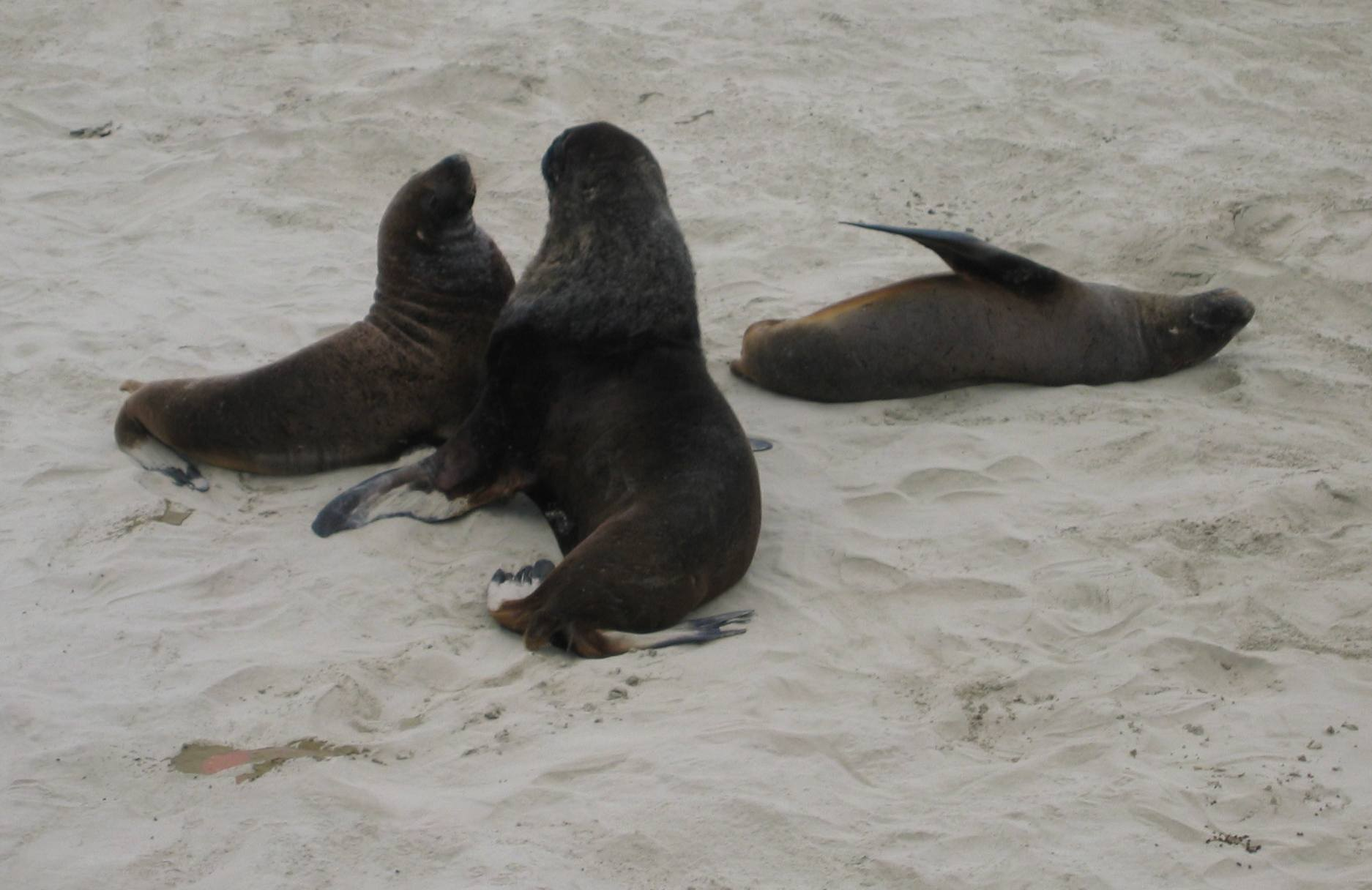 Three Hooker's sea lions on a beach in the Catlins, New Zealand. The large one in the middle is a male, the others are female.